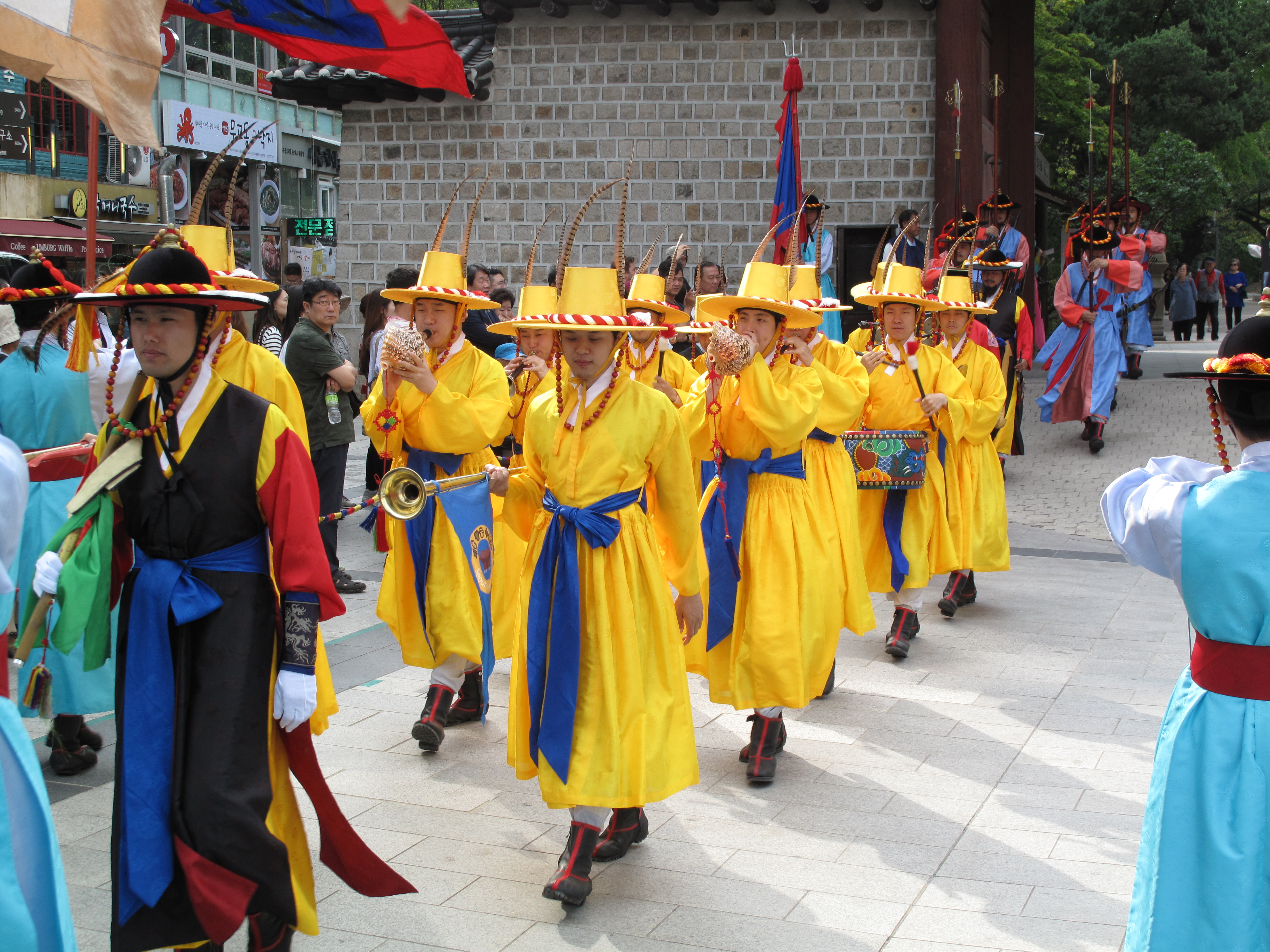 Changing of the Guard ceremony at Deoksugung Palace. Instruments played include the drums, trumpet, and conch.